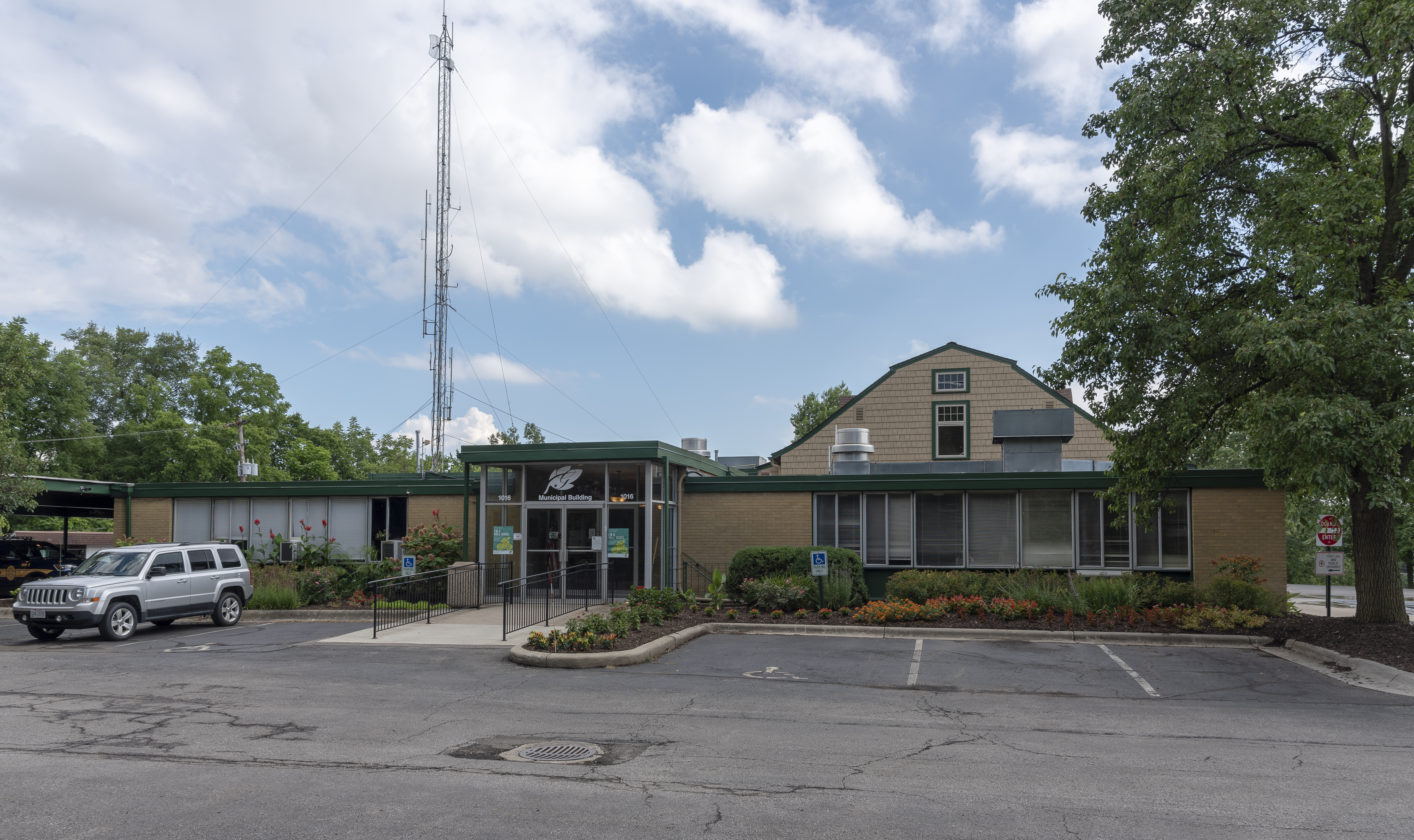 The Grandview Heights Municipal Building, headquarters of the city government. Taken on a cloudy day in late July.